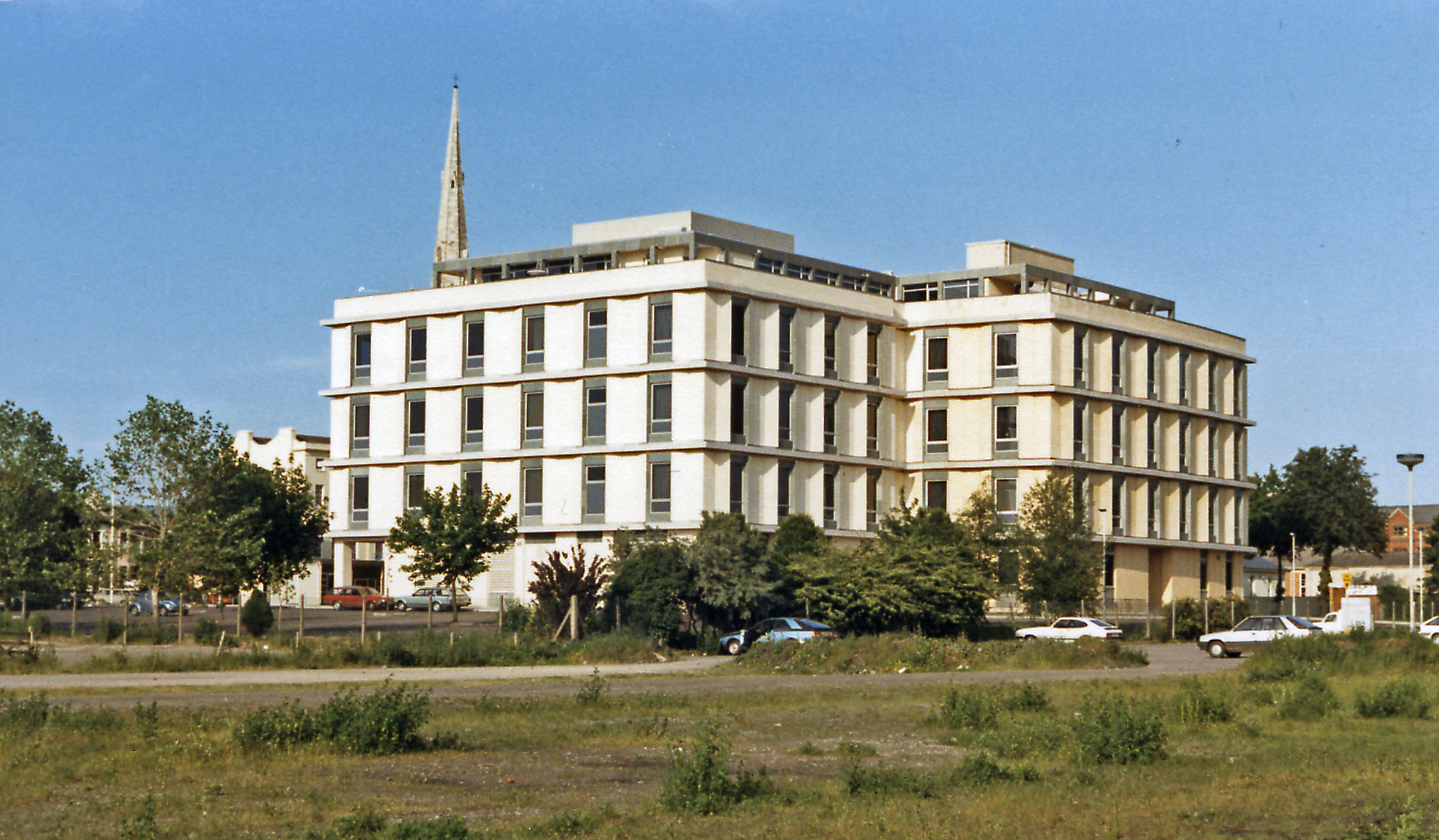 Site of Cheltenham Spa St James' station, 1986. View NE from St George's Road, near Great Western Road and/or Honeybourne Way, across the area formerly occupied by the GWR St James' Station (terminus) and its sidings, which were accessed by a short branch from the former Malvern Road Junction and Station, just SW of which was Lansdown Junction - itself south of the surviving Cheltenham (Lansdown) Station. St James' and Malvern Road stations were closed on 3/1/66, the Goods station 31/10/66. After that the whole area has been redeveloped, with new streets, office blocks, a super-store and Industrial Estate. It seems that the present Winston Churchill Memorial Garden is situated where St James' Station stood. Everything has changed so much even in the last 25 years that this view must be totally different now.